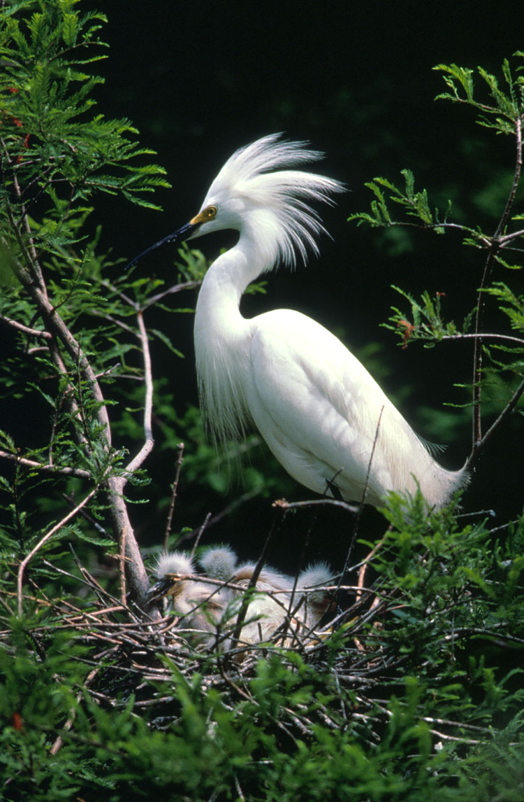 Snowy Egret (Egretta thula) This is a featured picture on the English language Wikipedia (Featured pictures) and is considered one of the finest images. If you think this file should be featured on Wikimedia Commons as well, feel free to nominate it. If you have an image of similar quality that can be published under a suitable copyright license, be sure to upload it, tag it, and nominate it.